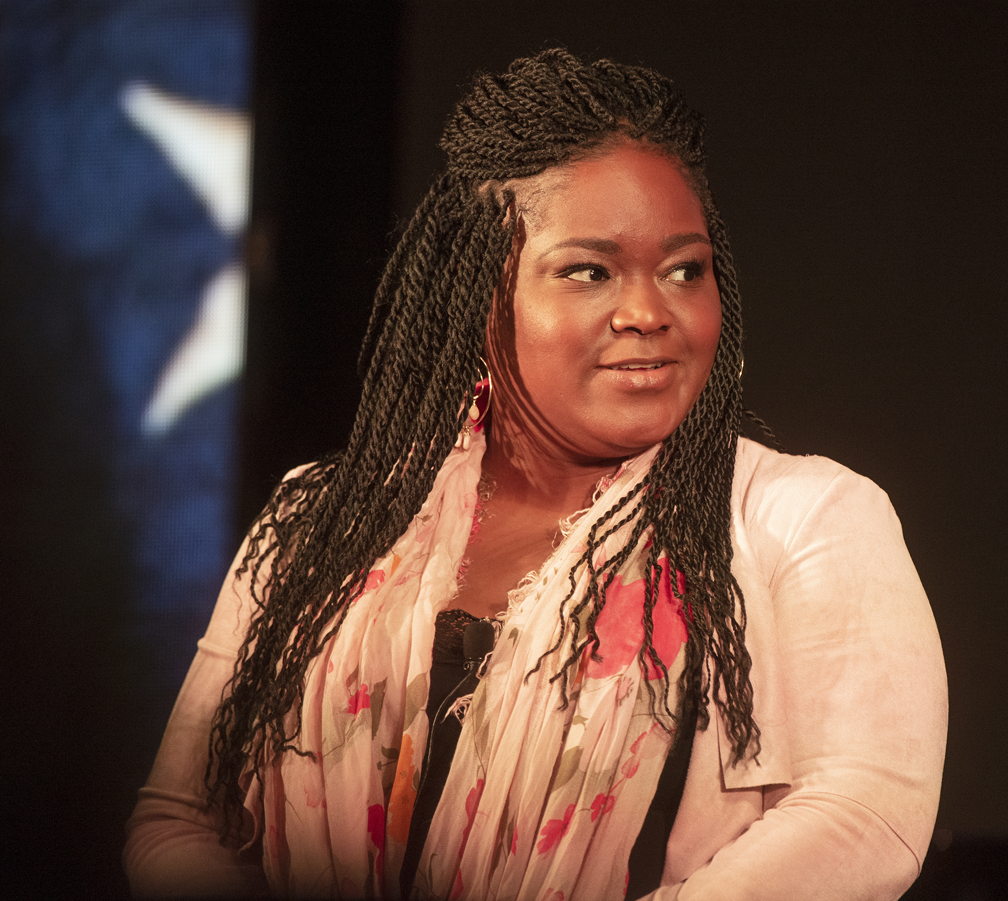 Blues singer Shemekia Copeland. Renowned songwriters and musicians discuss music as a form of inspiration, activism, and social expression, while offering their own musical performances at The Summit on Race in America at the LBJ Presidential Library in Austin on Tuesday, April 9, 2019. Performers include Wyclef Jean, who has three Grammy awards for rap and R&B; Jimmy Jam, who has five Grammy awards for songwriting and producing; and Shemekia Copeland, above, a Grammy-nominated blues singer. The Summit on Race in America runs from April 8-April 10 at the LBJ Library. 04/09/2019 LBJ Library photo by Jay Godwin